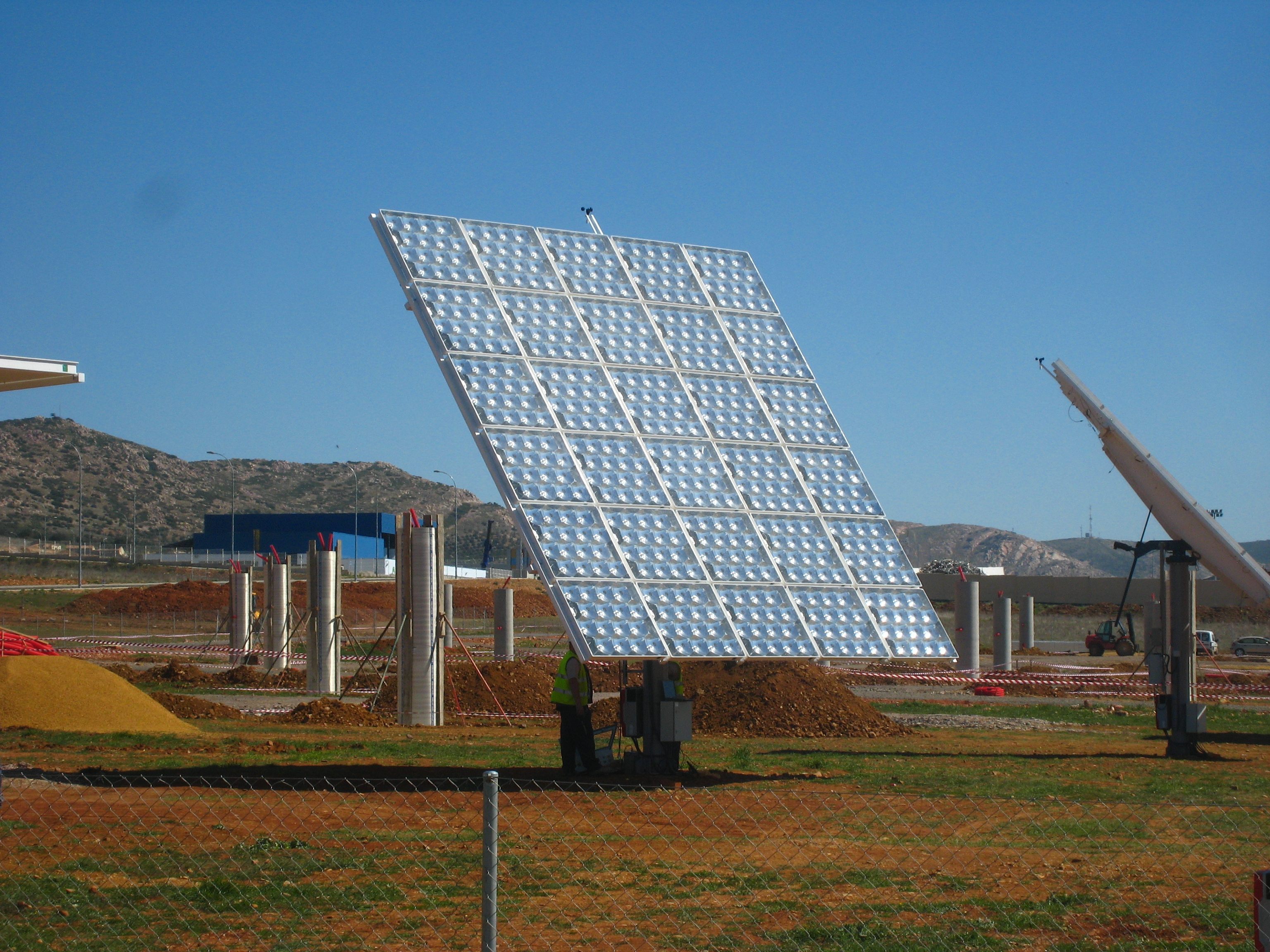 An older SolFocus system at the ISFOC Puertollano site.